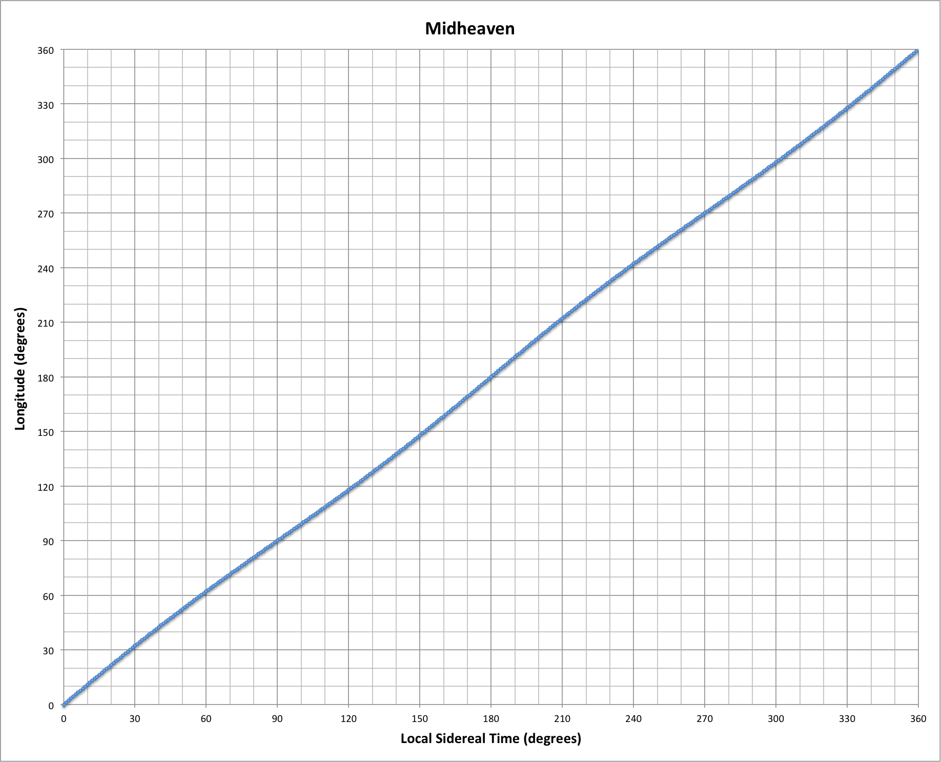 Midheaven longitude during a sidereal day